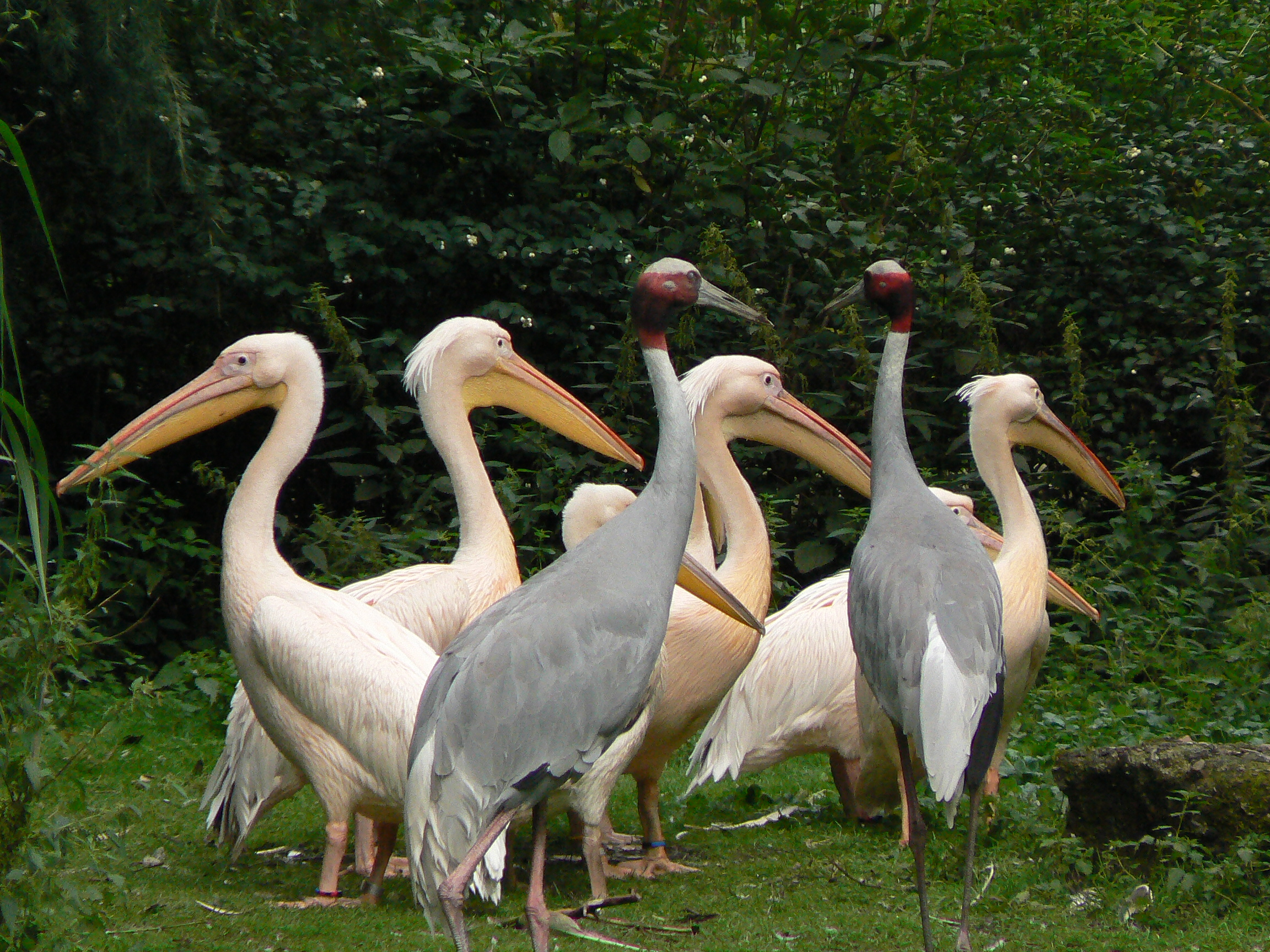 Pelecanus onocrotalus and Grus antigone together at the zoo of hamburg, germany